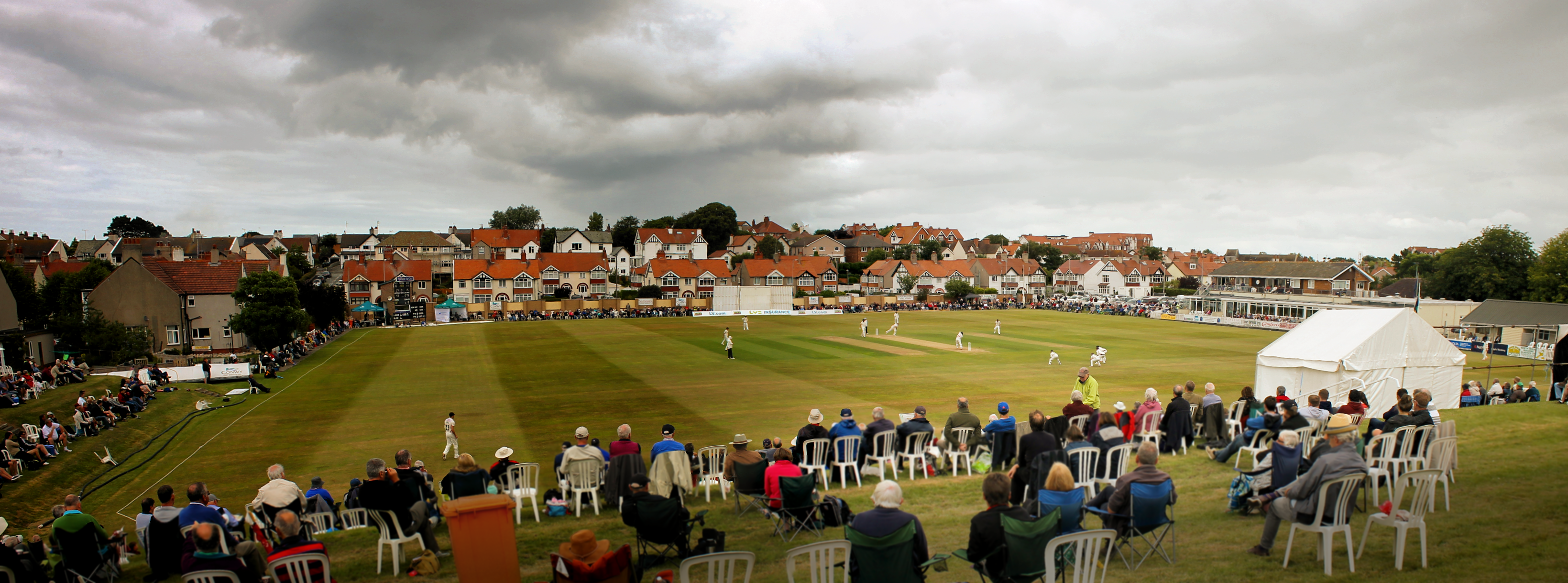 Glanmorgan against Lancaster in Bae Colwyn (Colwyn Bay), North Wales.